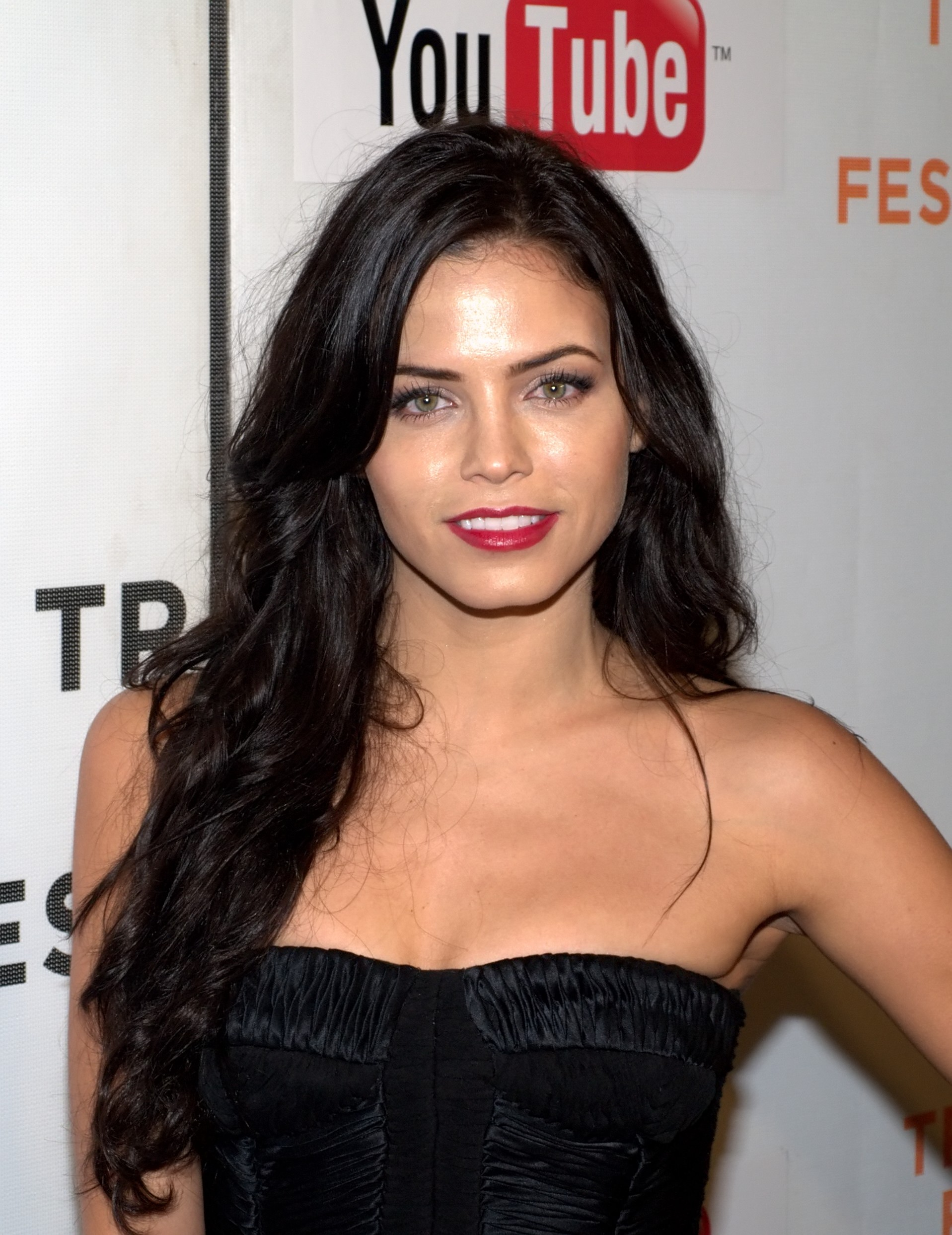 Jenna Dewan at Tribeca Film Festival 2010.